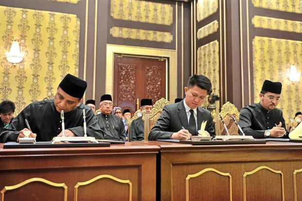 Official appointment: (From left) New deputy ministers Datuk Seri Reezal Merican Naina Merican (Foreign Affairs), Chong and Datuk Dr Asyraf Wajdi Dusuki (Prime Minister’s Department – religious affairs) signing the instrument of appointment after the swearing-in ceremony at Istana Negara.— Bernama